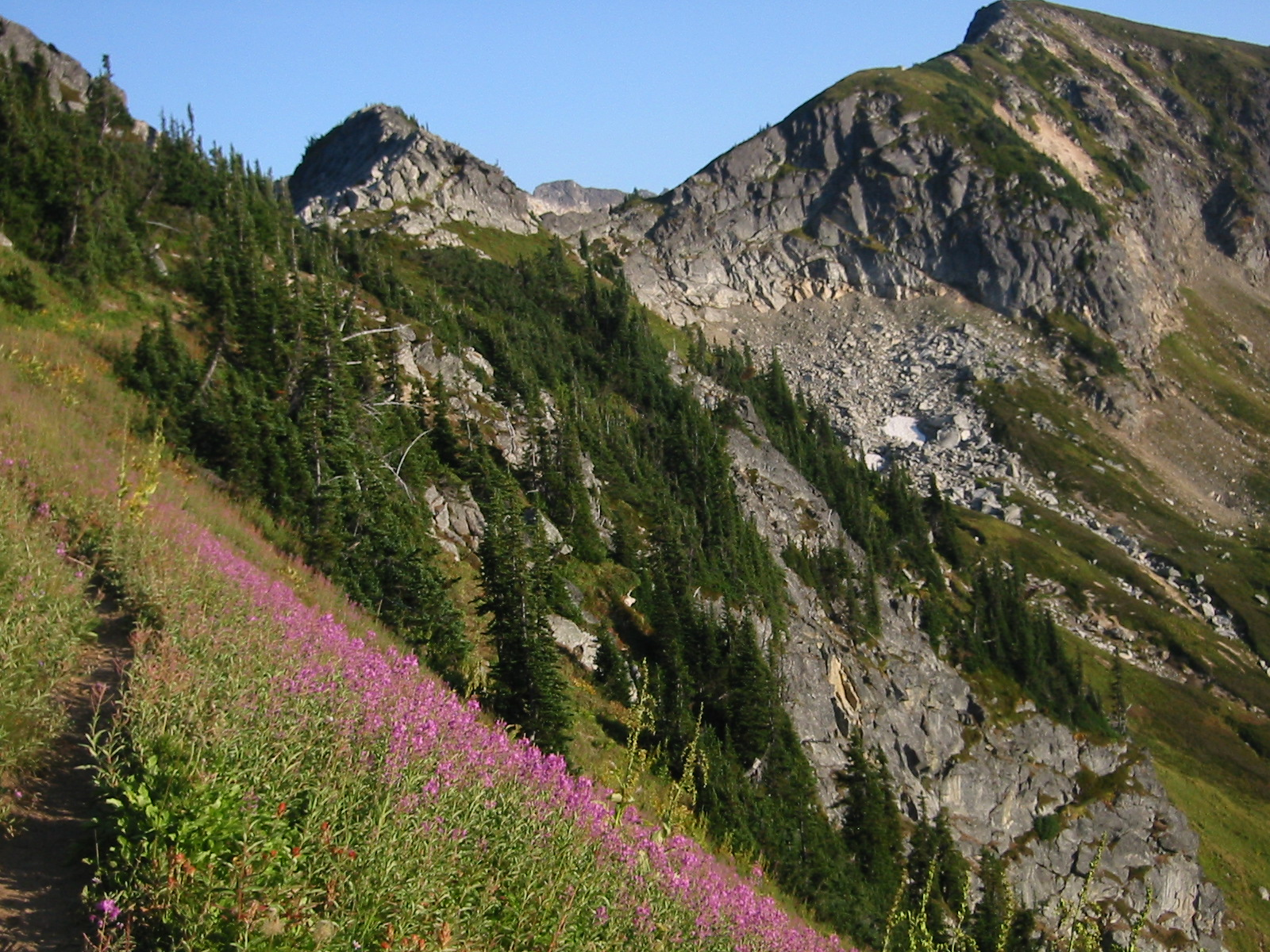 Fireweed and Pt. 7276 feet right